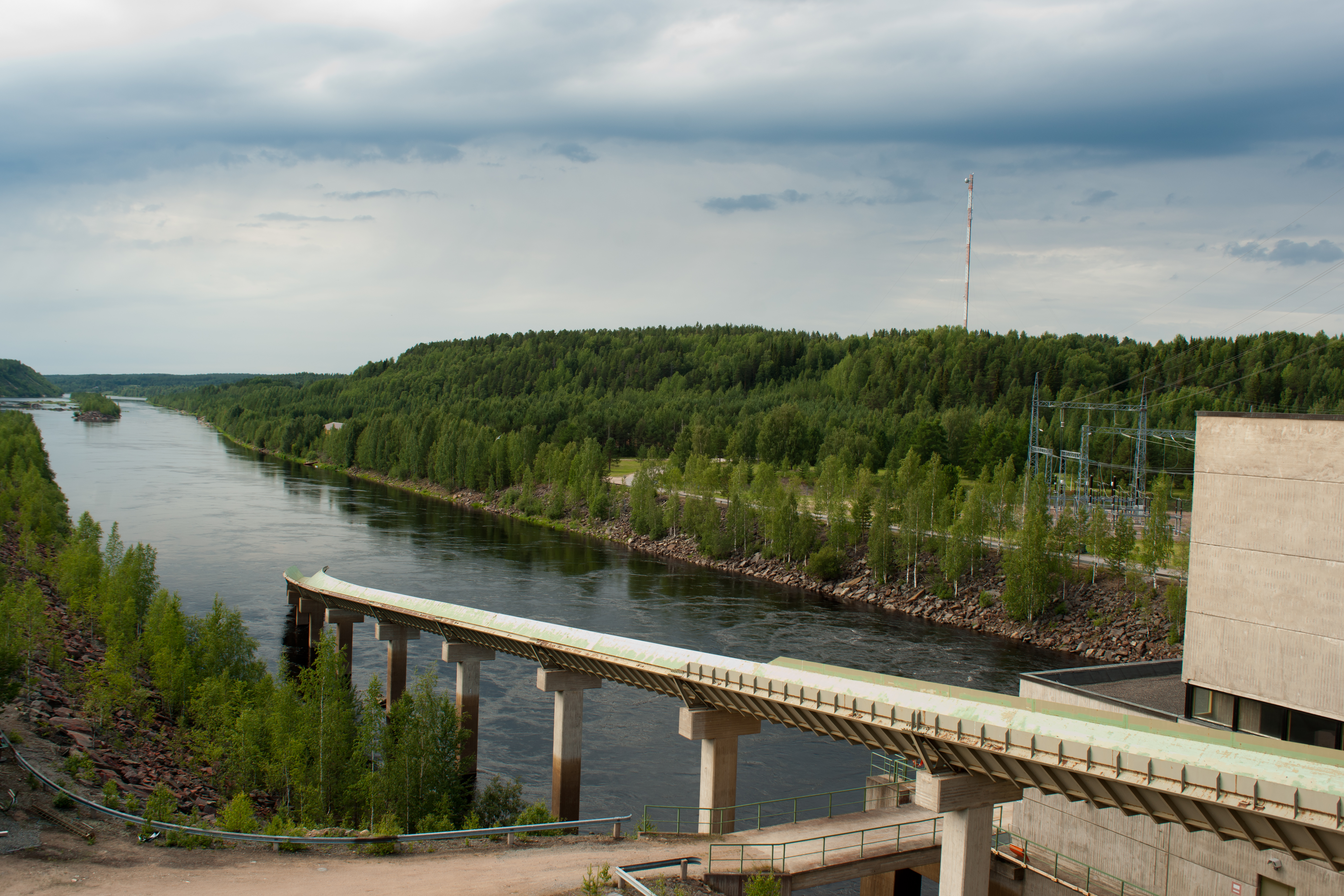 Hydroelectric facilities in Vanttauskoski, Rovaniemi, Finland.